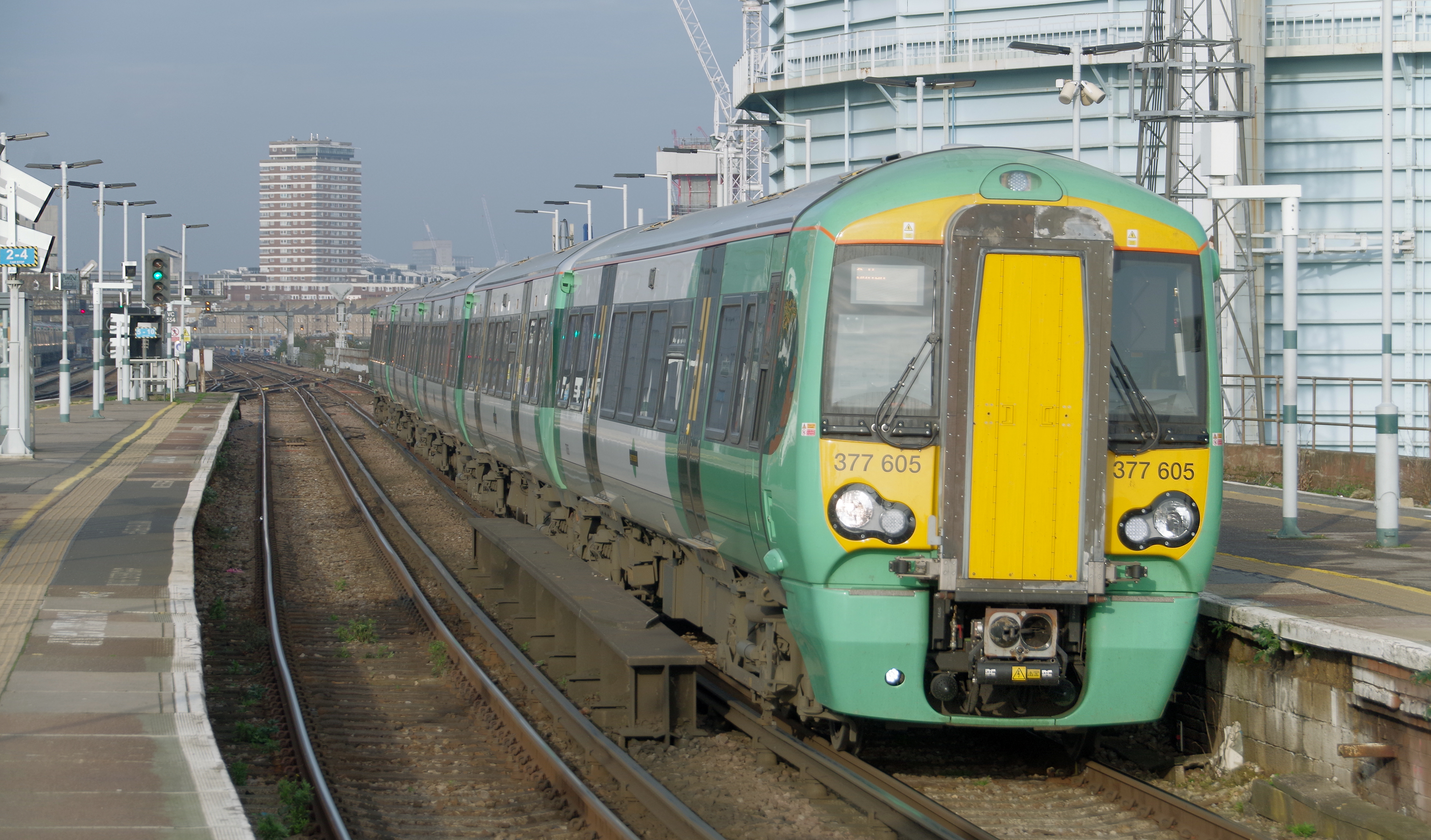 Southern class 377 "Electrostar" EMU 377605 arrives at Battersea Park, working a Victoria to Sutton service.